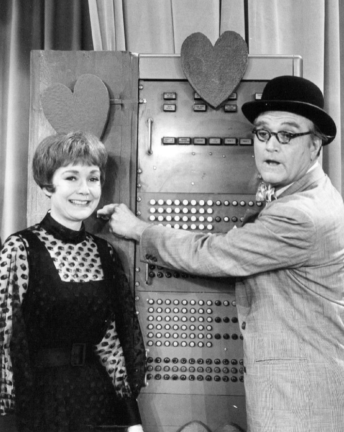 Red Skelton as George Appleby and Jane Wyman from Skelton's 1968 television show.